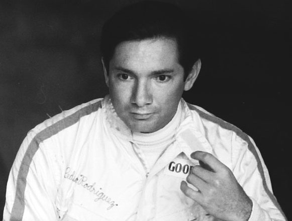 Portrait of the late racing driver Pedro Rodriguez. It was taken in April 1968 on the occasion of the formula 2 race "Eifelrennen" at Nürburgring.